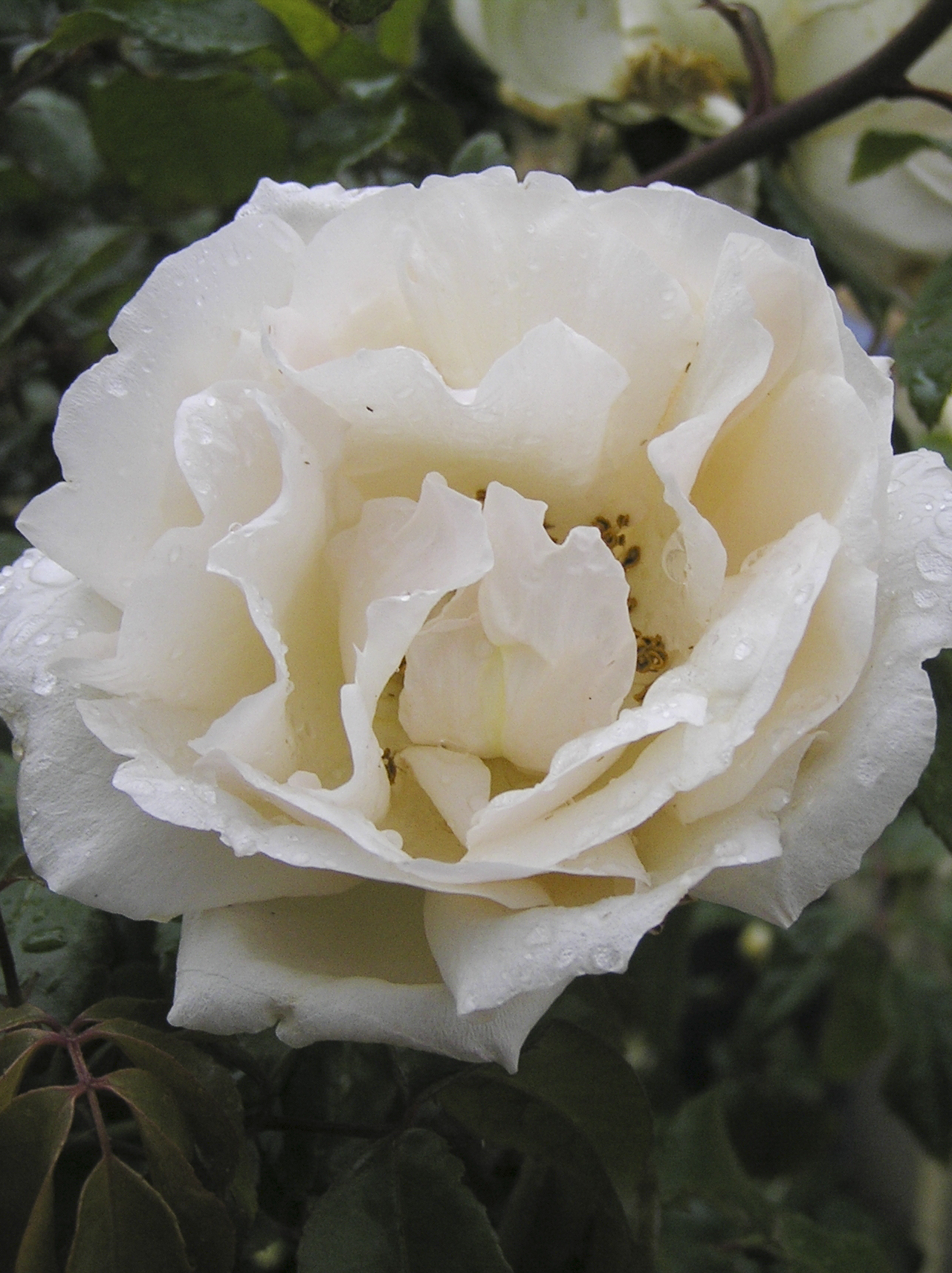 Rosa gigantea hybrid 1928 by Alister Clark; photographed in the Alister Clark Memorial Rose garden, Bulla, Victoria